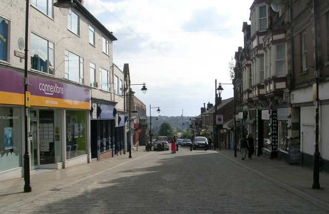 Gillygate viewed from Market Place